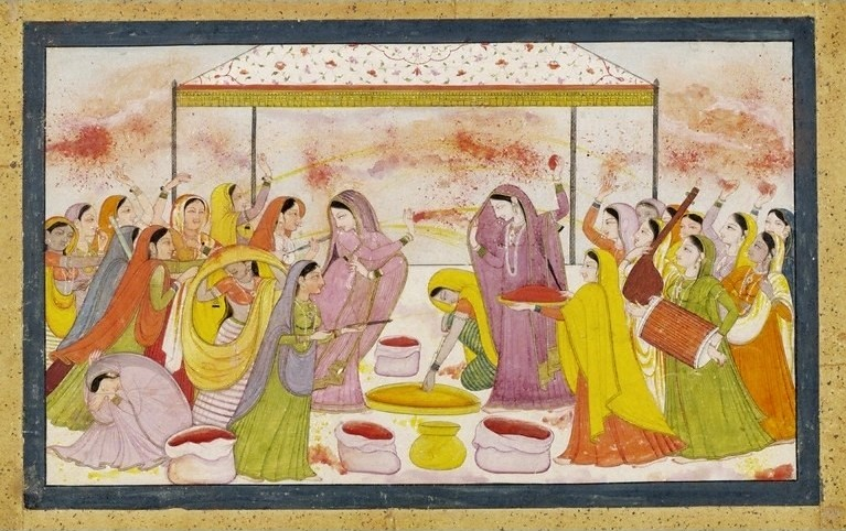 Radha celebrating Holi, c1788. (digitally enhanced version) Kangra, India.